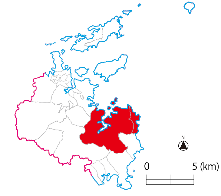 This map indicates the Kagamiura junior high school and elementary school district.